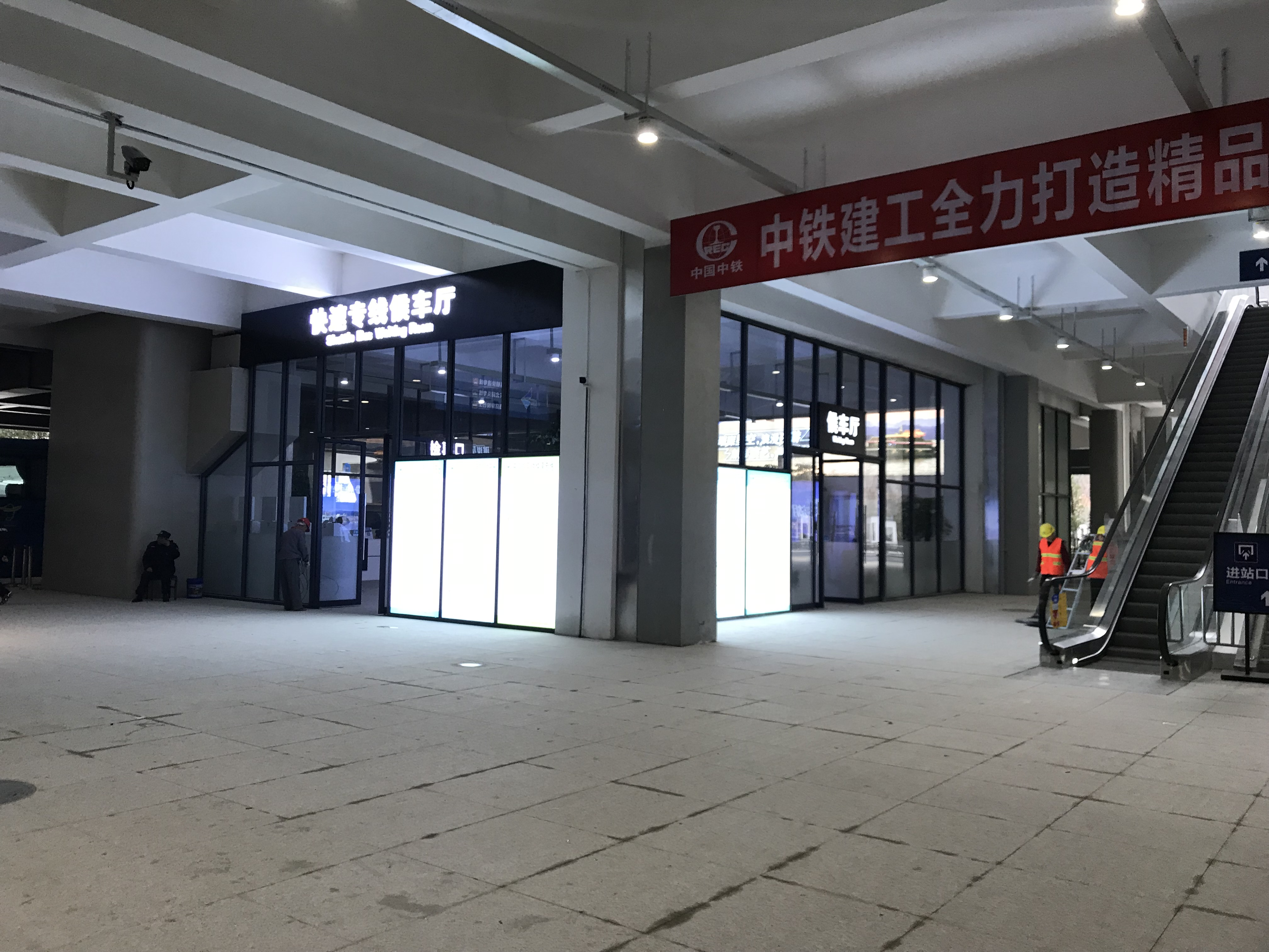 201812 HSR Shuttle Bus Waiting Area at Qiandaohu Station, located in the arrival level.